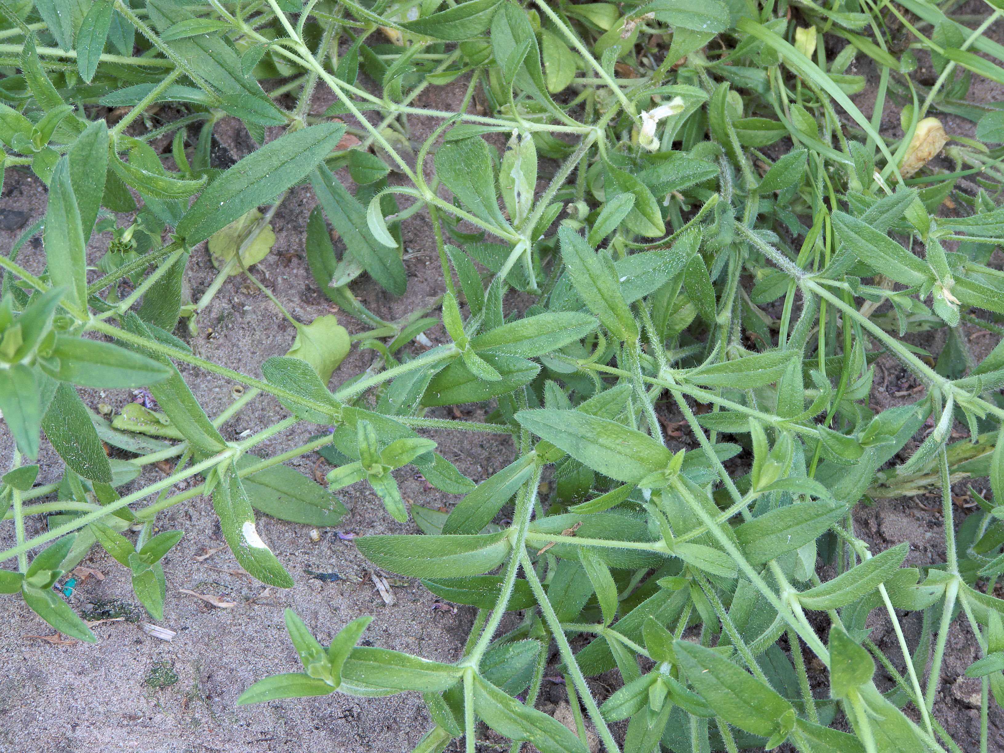 Cerastium fontanum subsp. vulgare